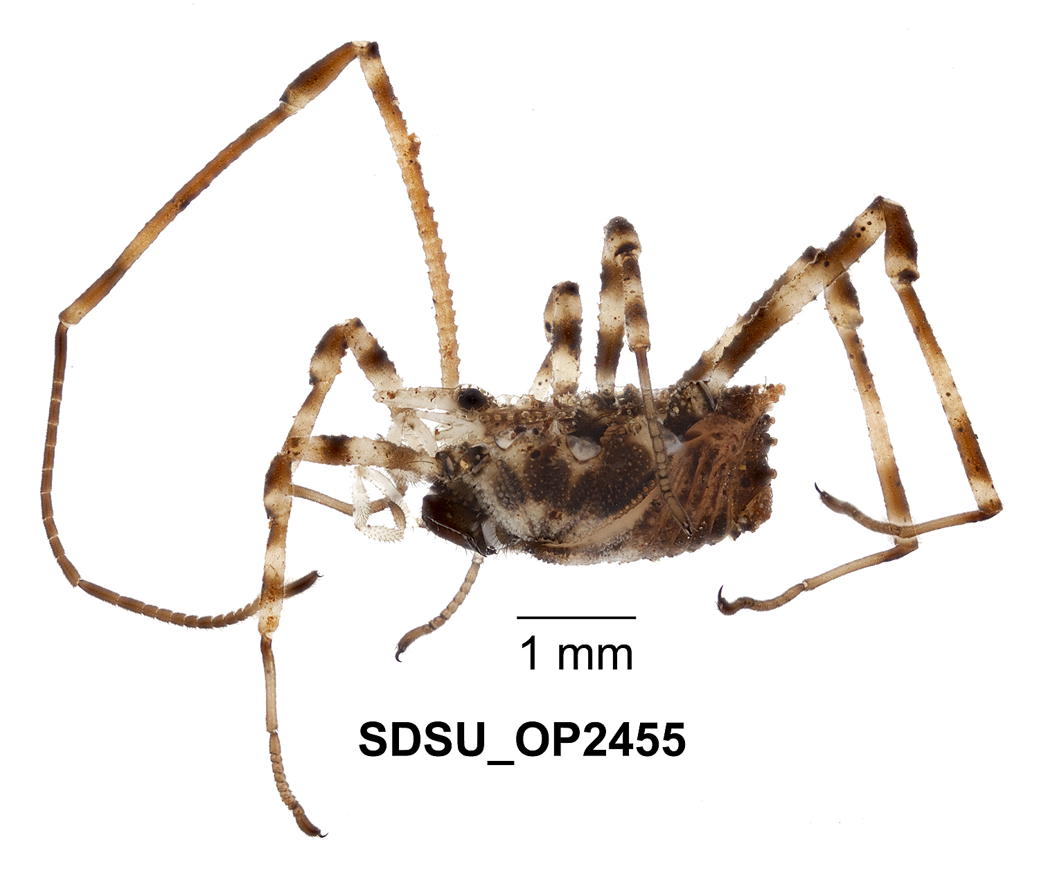 Ortholasma pictipes Banks, 1911; PRESERVED_SPECIMEN; MALE; ; 20/09/2008 00:00; Identified by: M Hedin